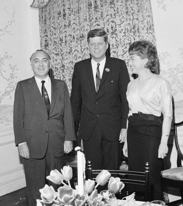 President John F. Kennedy stands with Arthur B. Krim (left) and Dr. Mathilde Krim (right) during an evening reception at the Krim residence in New York City, New York.